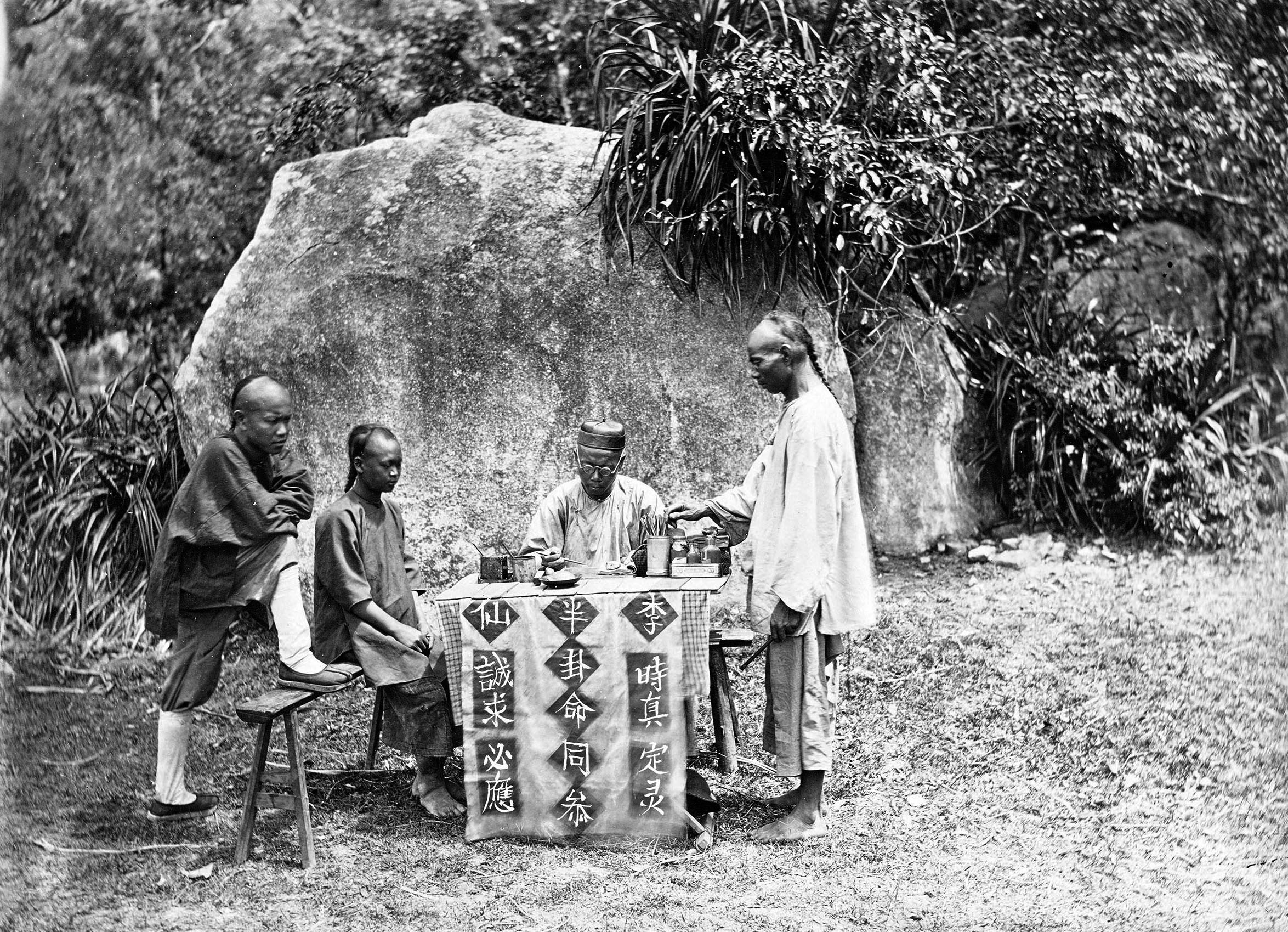 Photograph in Images related to Shanghai and other Chinese cities.